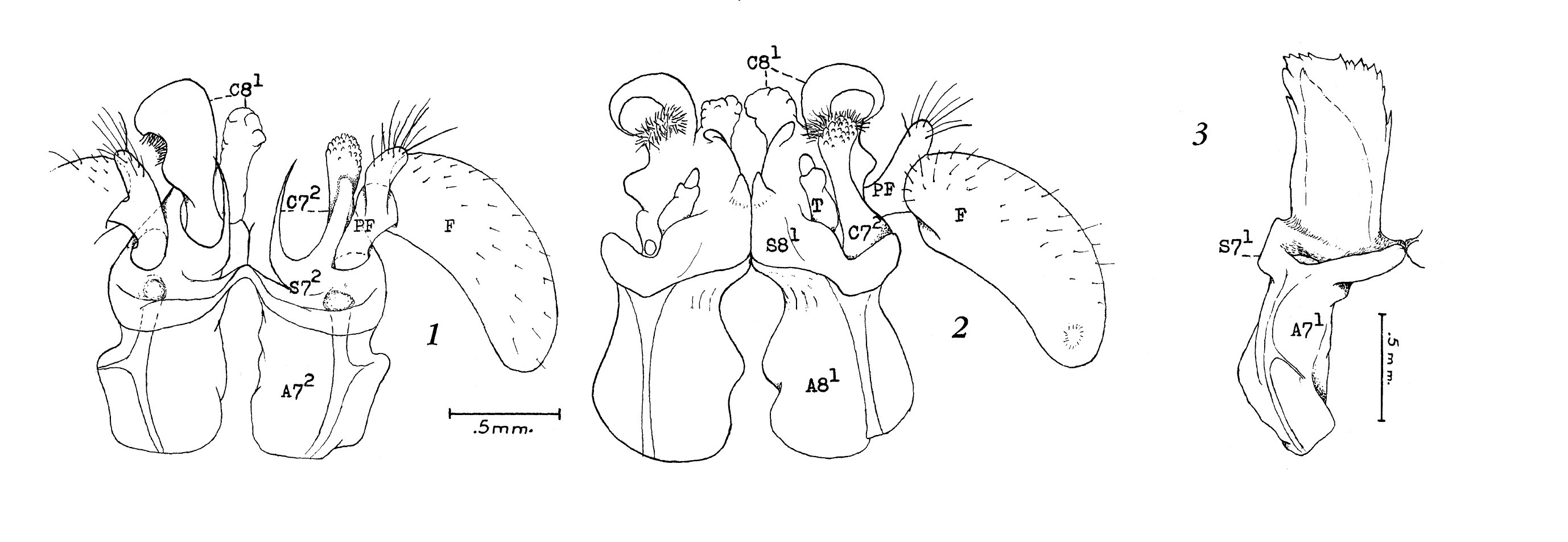 Aldrityla deseretae (Chamberlin). 1. Posterior gonopods and left tenth leg, anterior view. 2. Left posterior gonopod and legpair 10, posterior view. 3. Left anterior gonopod, anterior view. (Abbreviations: A71, A72, A81, sternal apodemes of anterior gonopod, posterior gonopod, and leg 10, respectively; C72, C81, coxites of posterior gonopod and leg 10, respectively; F, PF, femur and prefemur of posterior gonopod, respectively; S71, S72, S81, coxosternites of anterior gonopod posterior gonopod, and leg 10, respectively; T, telopodite of leg 10.)